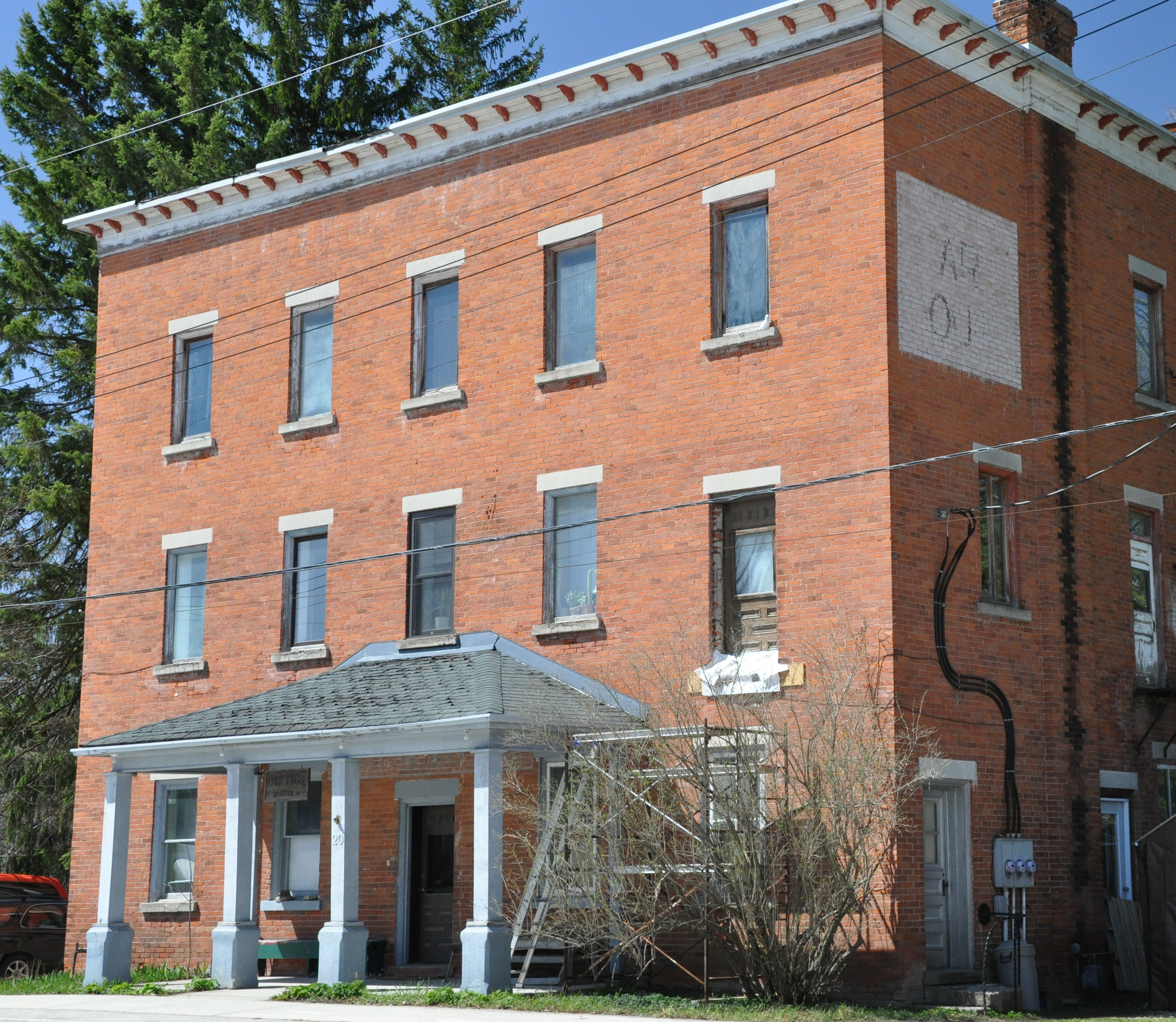 Park House in Flesherton, Ontario, Canada, was a "temperance" hotel built in 1908 for teachers wishing to stay in a facility that did not serve alcohol. It operated as a hotel until the 1950s, and was bought in 1983 by artists Harold Klunder and Catherine Carmichael and is now their private residence.